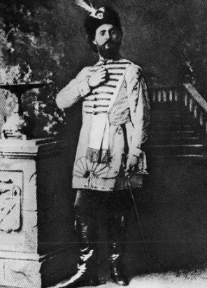 Tenor Fyodor Komissarzhevsky as the Pretender in Boris Godunov 1873 or 1874